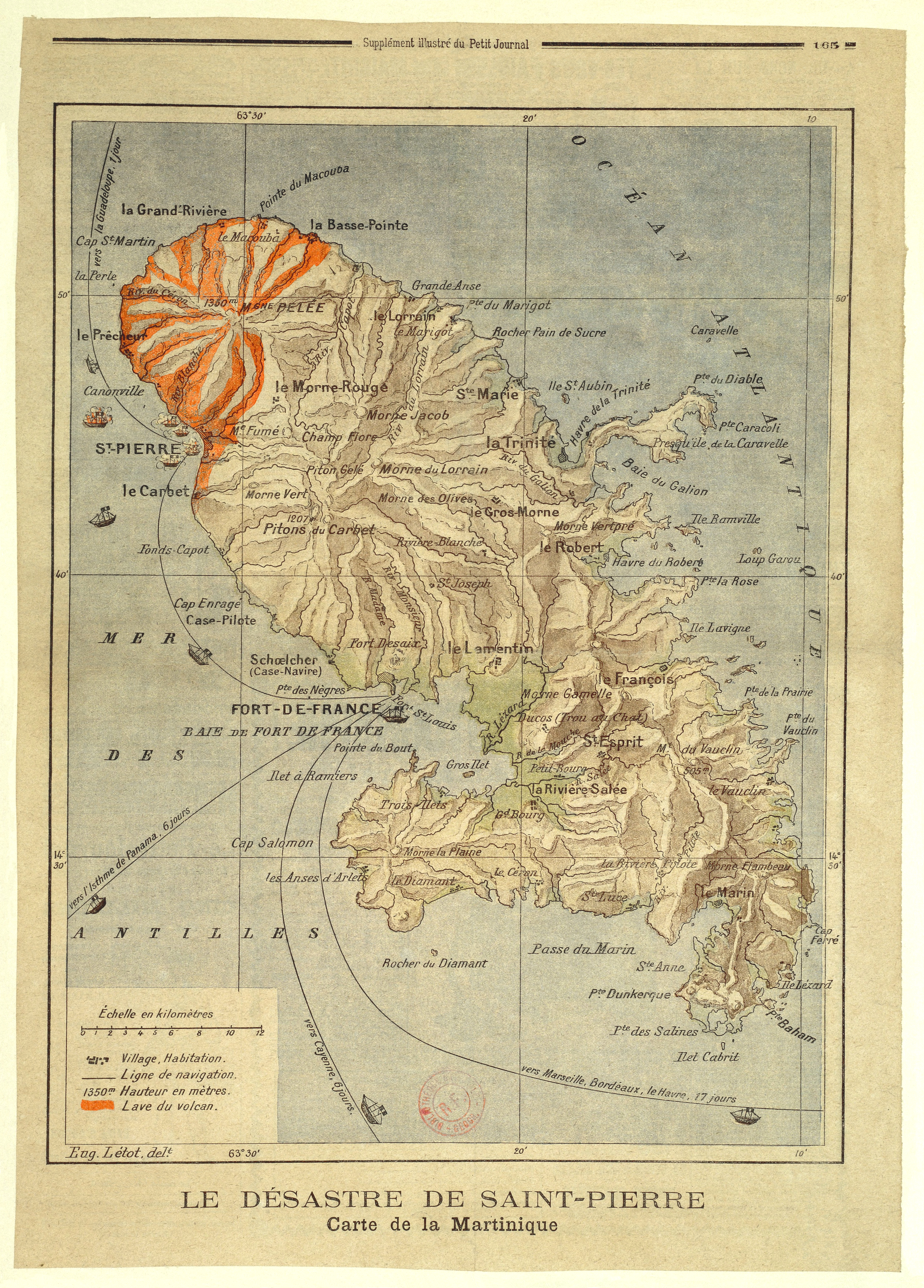 "The Disaster of Saint-Pierre". Map of Martinique.